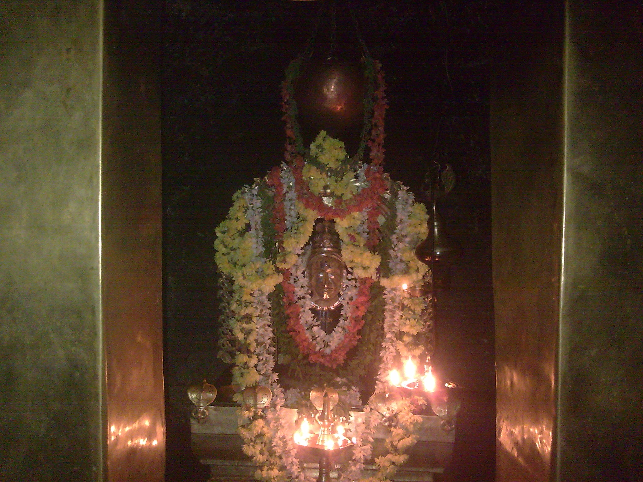 Photo of Lord Somanatheshwara at Nellitheertha